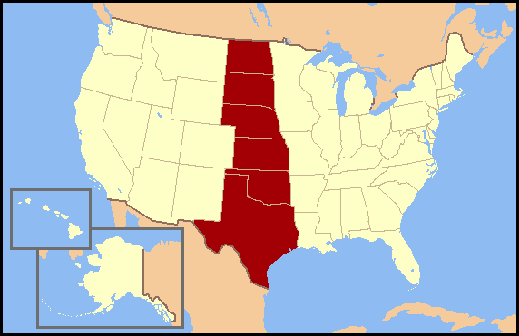 Frontier Strip refers to the six U.S. states from North Dakota south to Texas. These states form a nearly straight line from north to south and roughly correspond to the Great Plains region of the United States. The term Frontier Strip is probably correlated to the 1880 census, where these six states, some of which were territories at the time, were part of the "Frontier Line," the geographic designation by the U.S. Census Bureau that proclaimed where the civilitation of the Eastern United States ended and the historic American Wild West began. In the 1890 census, it stated, "Up to and including 1880 the country had a frontier of settlement, but at present the unsettled area has been so broken into by isolated bodies of settlement that there can hardly be said to be a frontier line. In the discussion of its extent, its westward movement, etc., it can not, therefore, any longer have a place in the census reports." NOTE: On 2 January 2018 Wikipedia:Articles for deletion/Frontier Strip determined that "frontier strip" is not actually a recognized geographical term, so this graphic should no longer be used.